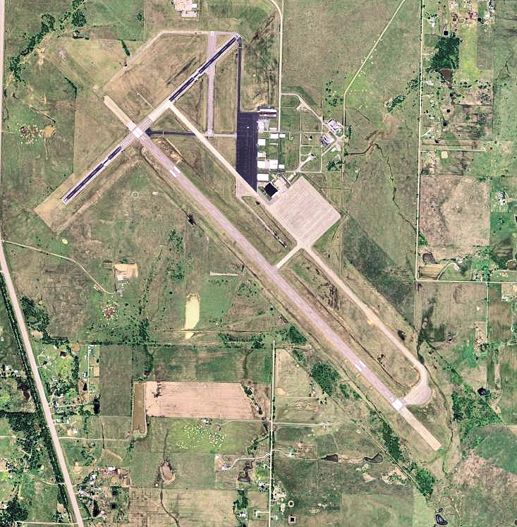 USGS digital orthophoto of Davis Field Airport in Oklahoma